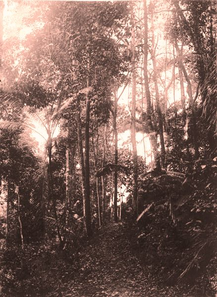 Bospad te Atjeh